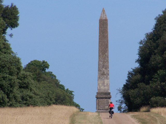 Obelisk, Holkham Hall. Obelisk built in 1728 at highest point of Holkham Hall estate.